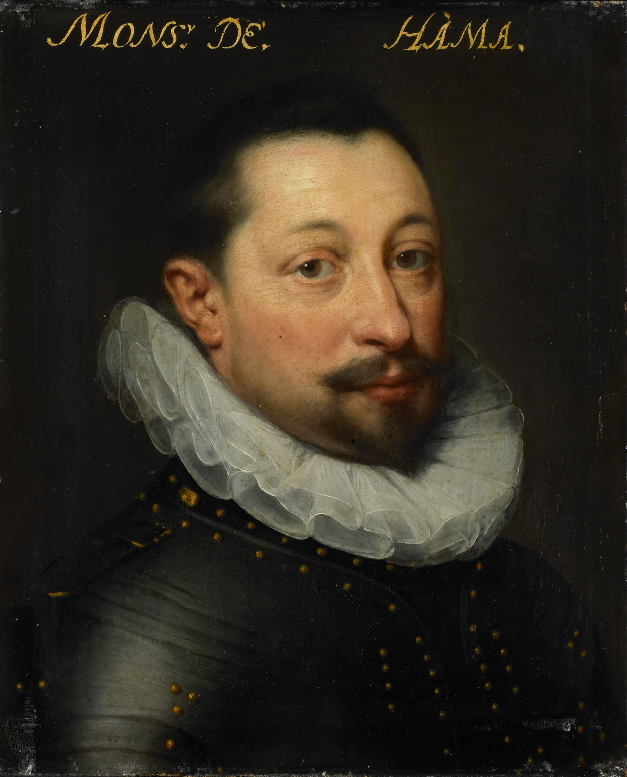 Portrait of Charles de Levin (....-1592). Part of the Leeuwarden series, a series of portraits of military officials from the Eighty Years' War as well as members of the House of Orange-Nassau, first documented in 1633 in the Stadhouderlijk Hof (Stadholder's Court) in Leeuwarden (see Object history).